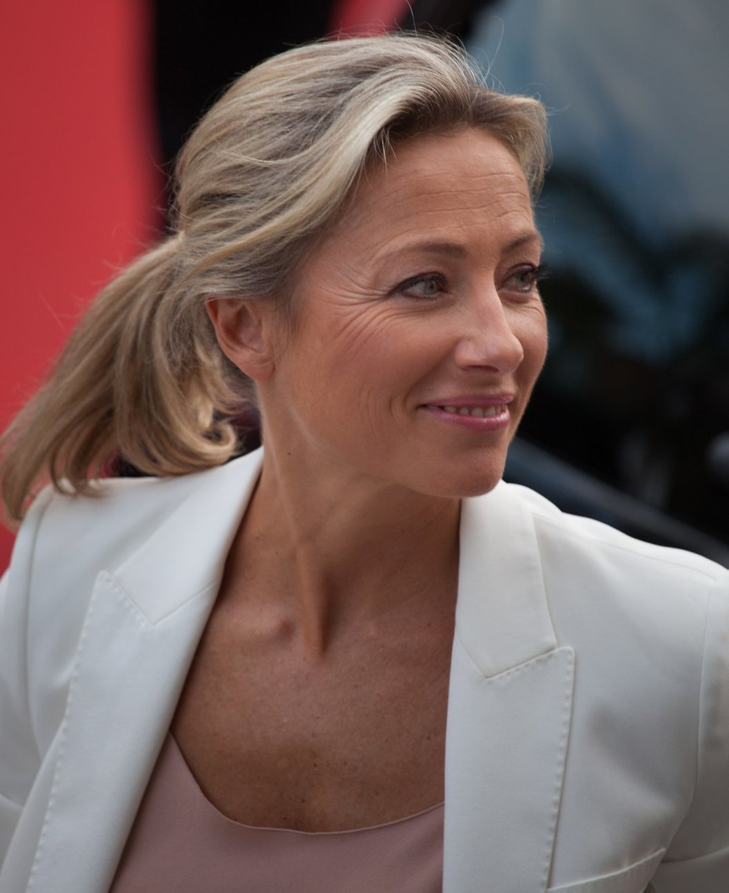 Anne-Sophie Lapix at Cannes in 2018